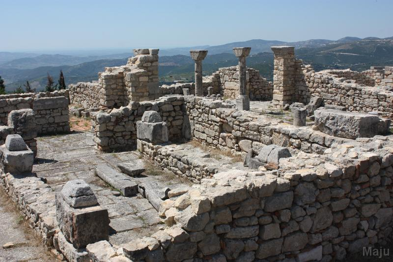 Byllis, archaeoligical site